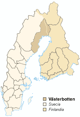 Map Swedish Provinces, Västerbotten © Mic, 2003 Released under the GNU Free Documentation License See also: Provinces of Sweden